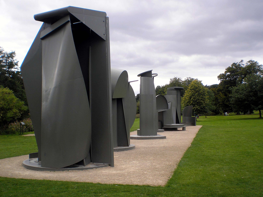 Promenade- Anthony Caro - Yorkshire Sculpture Park/U.K.